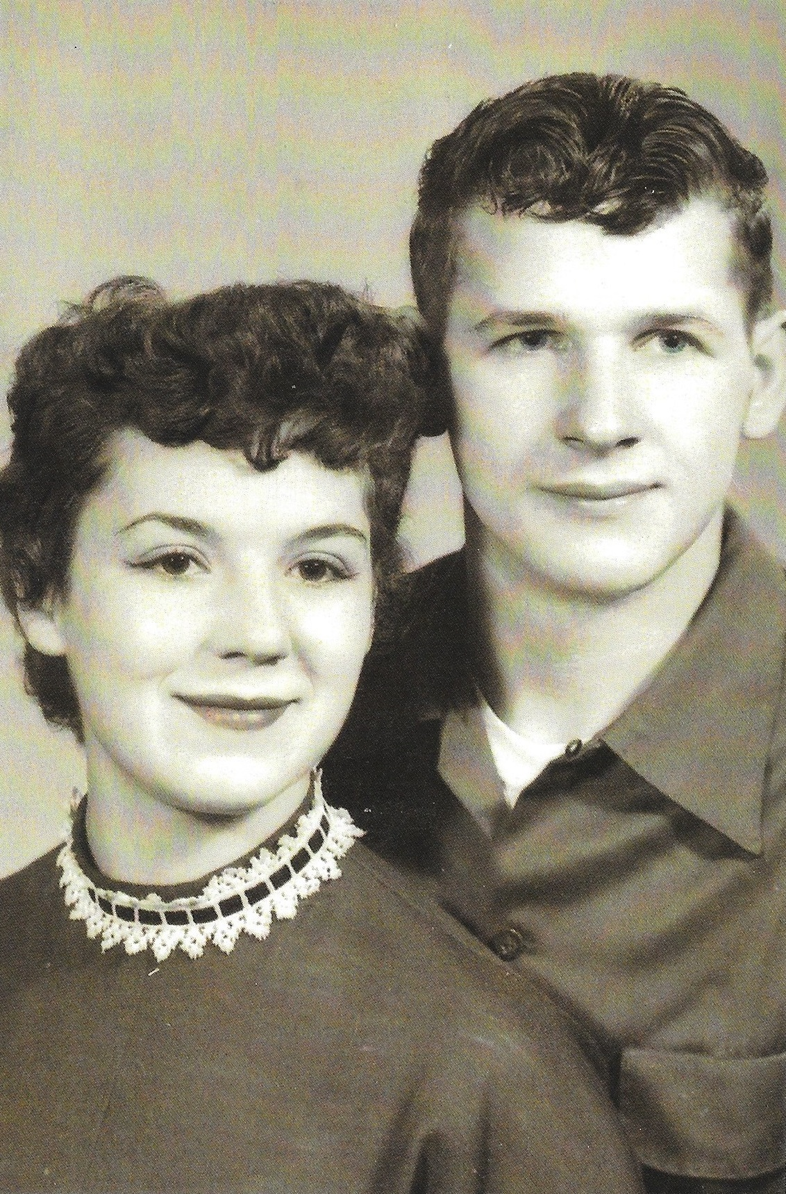 A 1956 photograph of Donald E. Parker and Joan A. Sievers, parents of Daniel Ray Parker, an American sculptor.